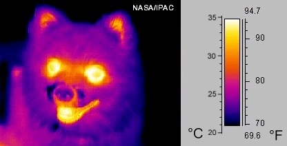 Thermogram (infrared image) of a small dog, with Fahrenheit temperature scale. Approximate Celsius scale was added later by Wikipedia.